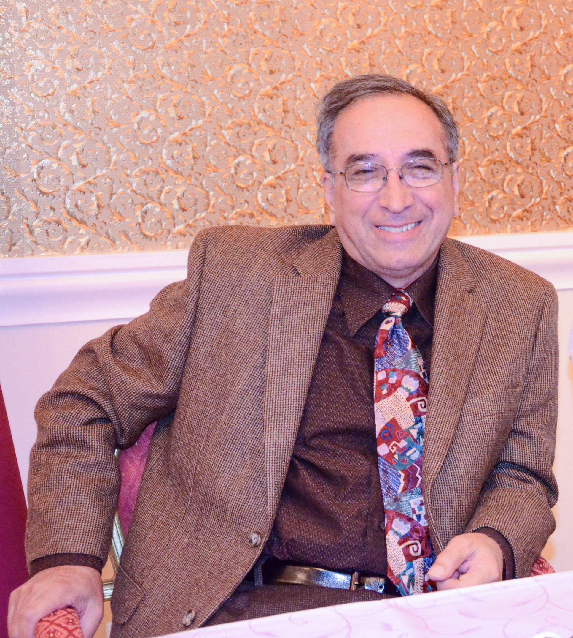 Hassan Niknafs smiling at conference table at Khazar University in 2014